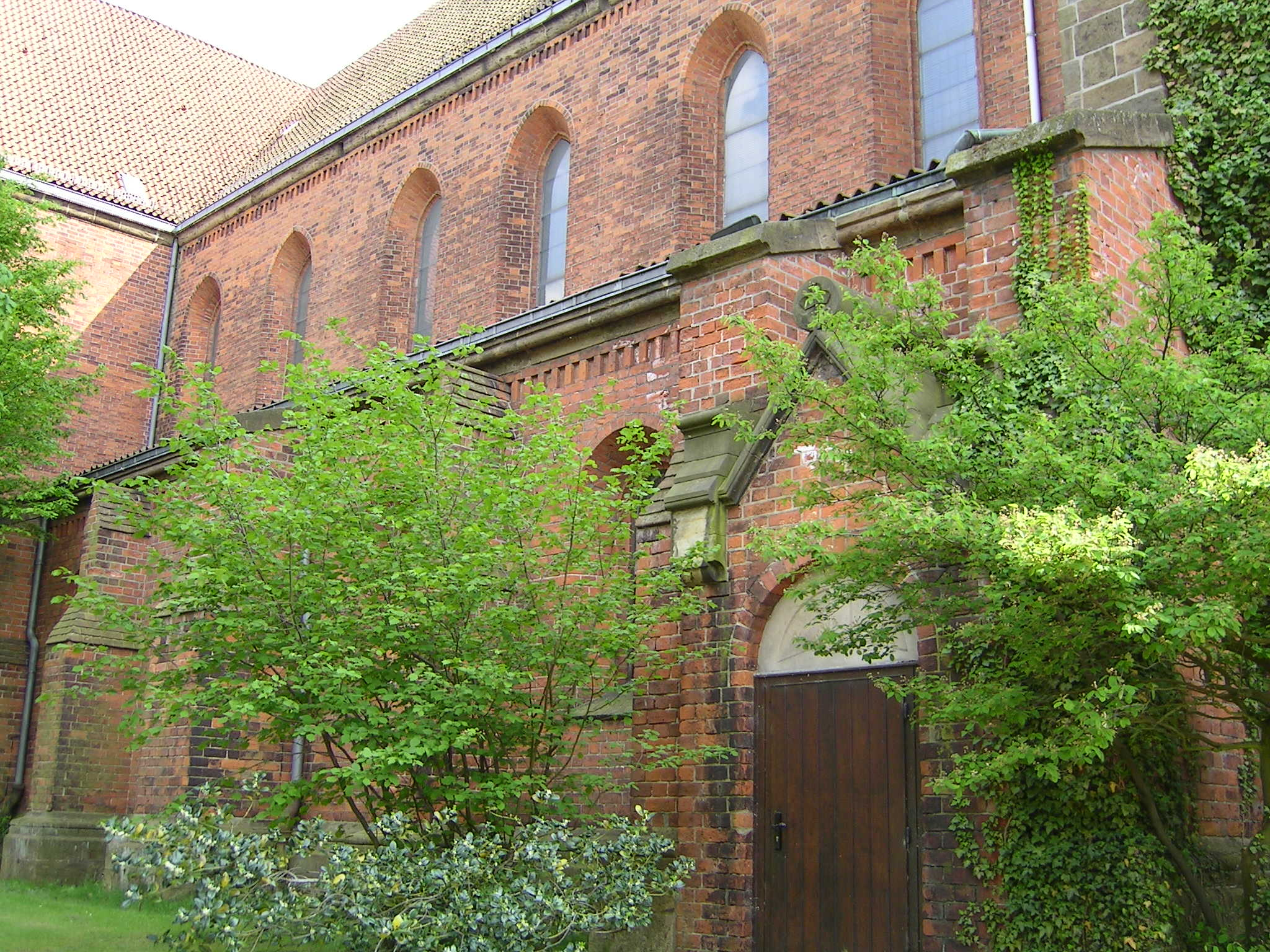 St Stephani Church in Bremen, northern side of the nave with aisle and clerestory. Converted from a basilica into a hall church in the 14th century, it became fragile in the late 19th century. In 1888 to 1891, the hall nave was replaced by a basilica in Romanesque-Gothic revival Style. See also Info Plate 1 and Info Plate 2